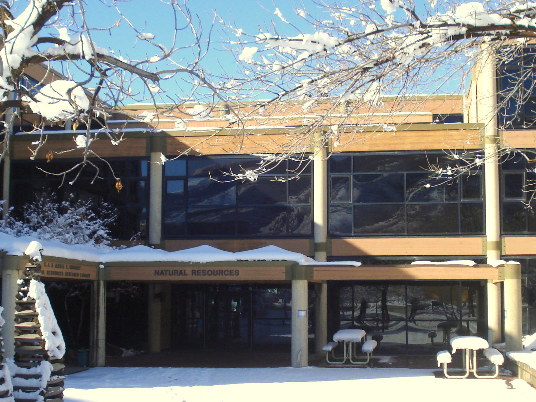 Natural Resources Building on the campus of Utah State University